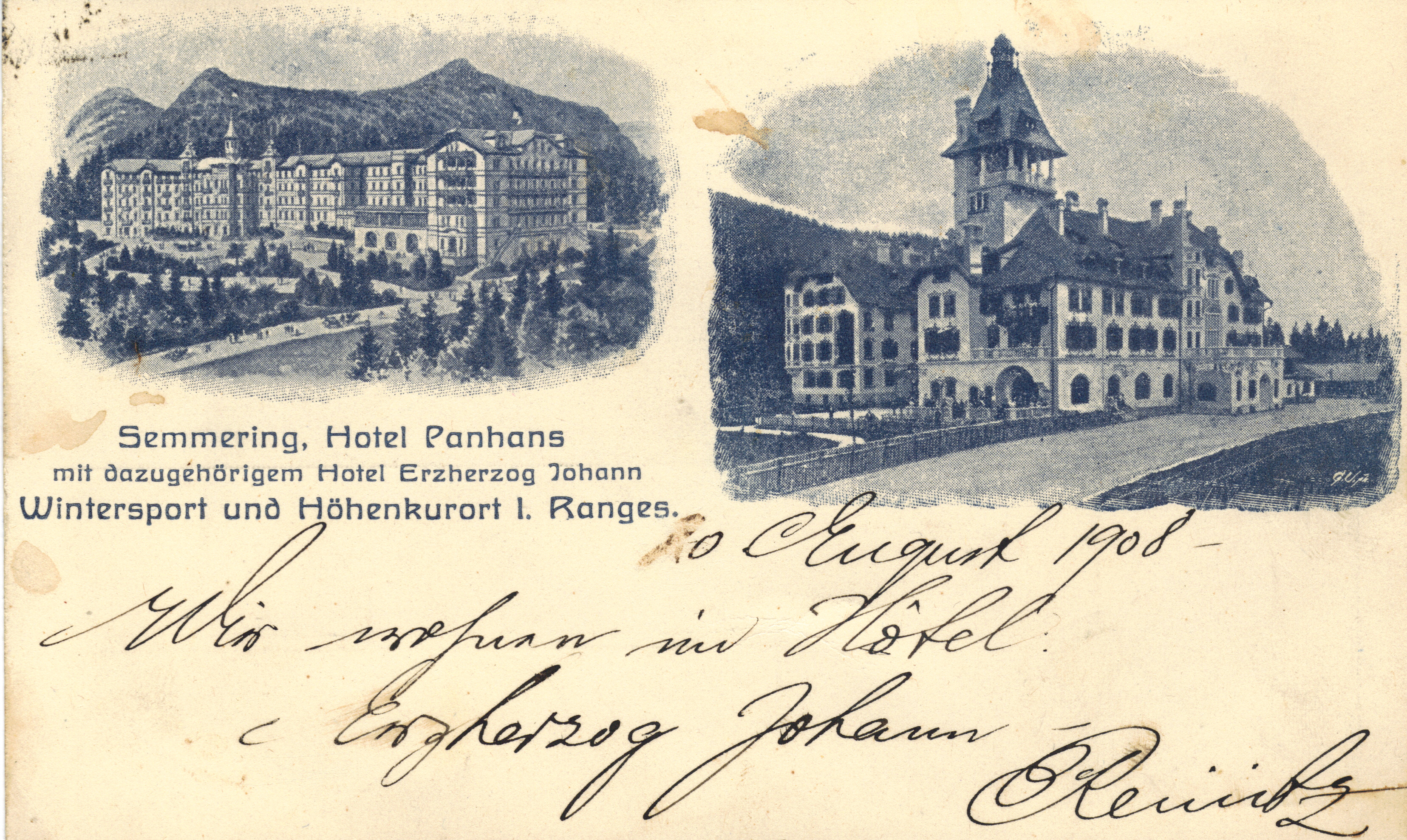 Hotels Panhans and Erzherzog Johann, Semmering, Austria, before 1908